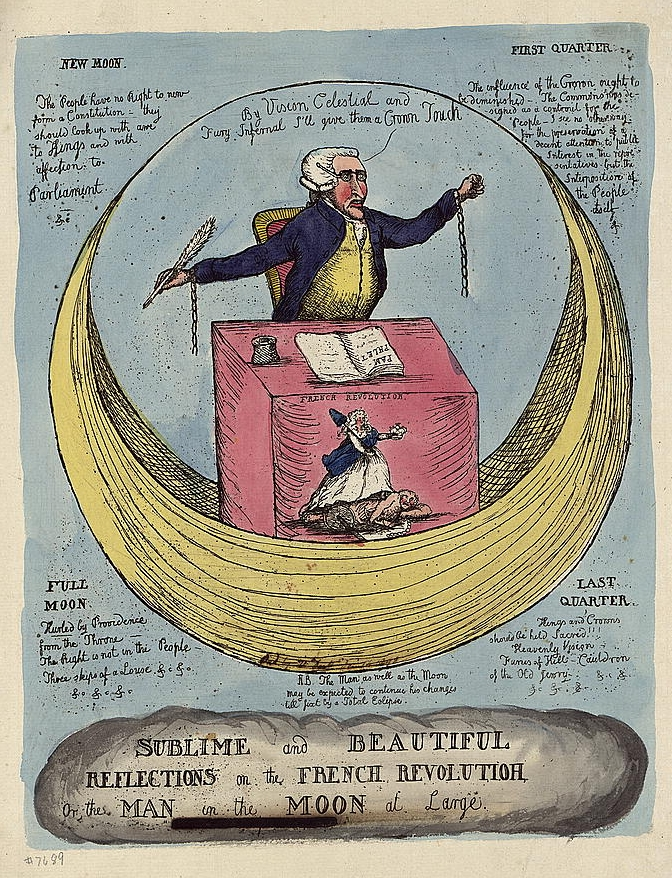 "Sublime and beautiful reflections on the French revolution, or the man in the moon at large." The print is a satire on Edmund Burke's "Reflection on the Revolution in France". Library of Congress description: "Print shows Edmund Burke sitting at a desk on a crescent moon, holding a quill pen, an open "pamphlet" and an inkwell are on the desk, broken chains hang from his wrists; a scene on the front of the desk, labeled "French Revolution" shows a woman holding a liberty cap and a crown, standing on a man holding a chain."